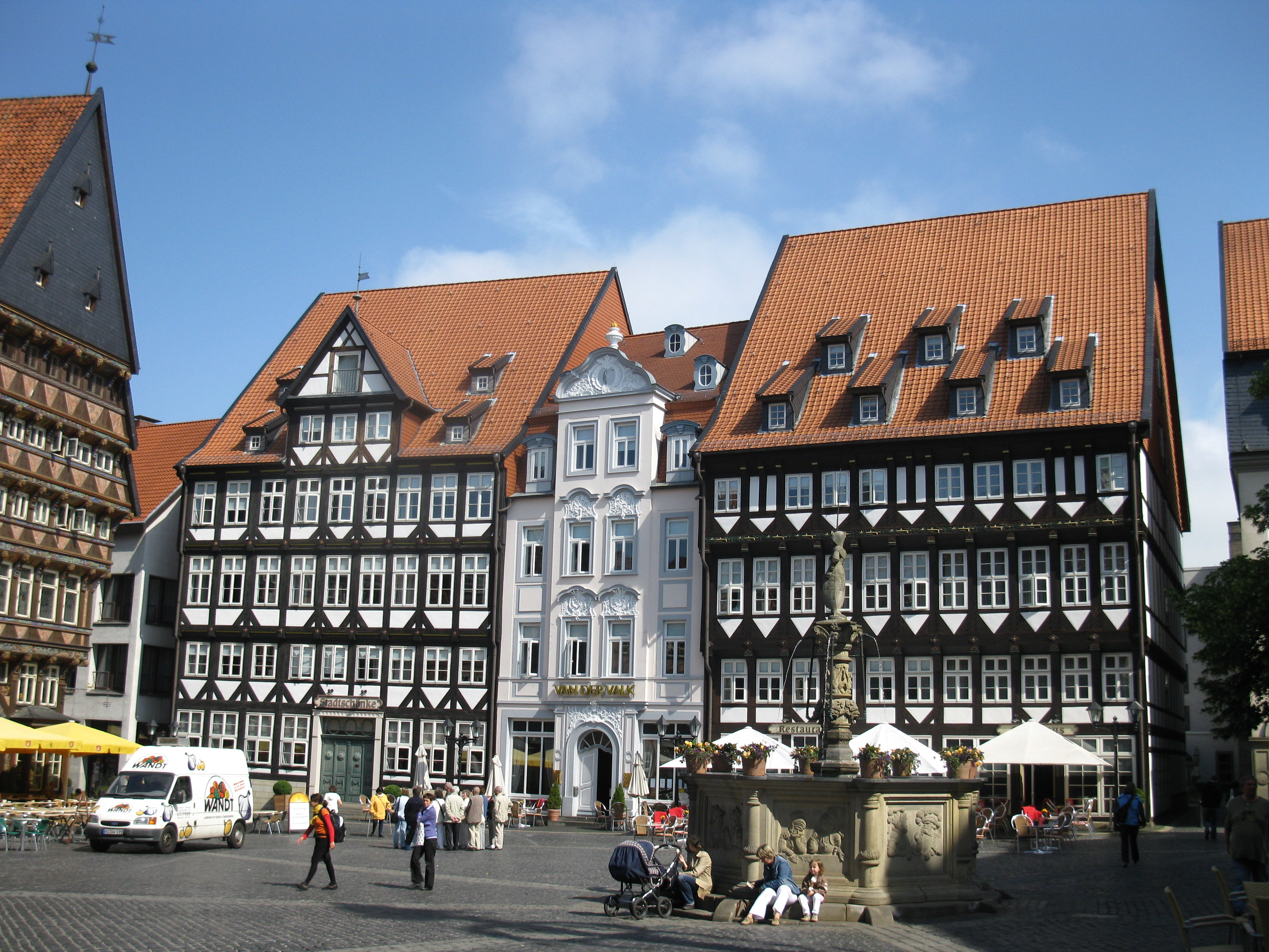 Historic Market Place, Northern Part, Hildesheim